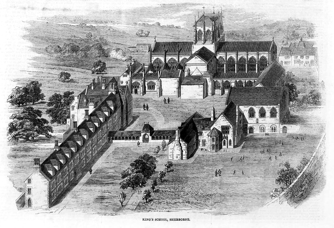 King's school, Sherborne